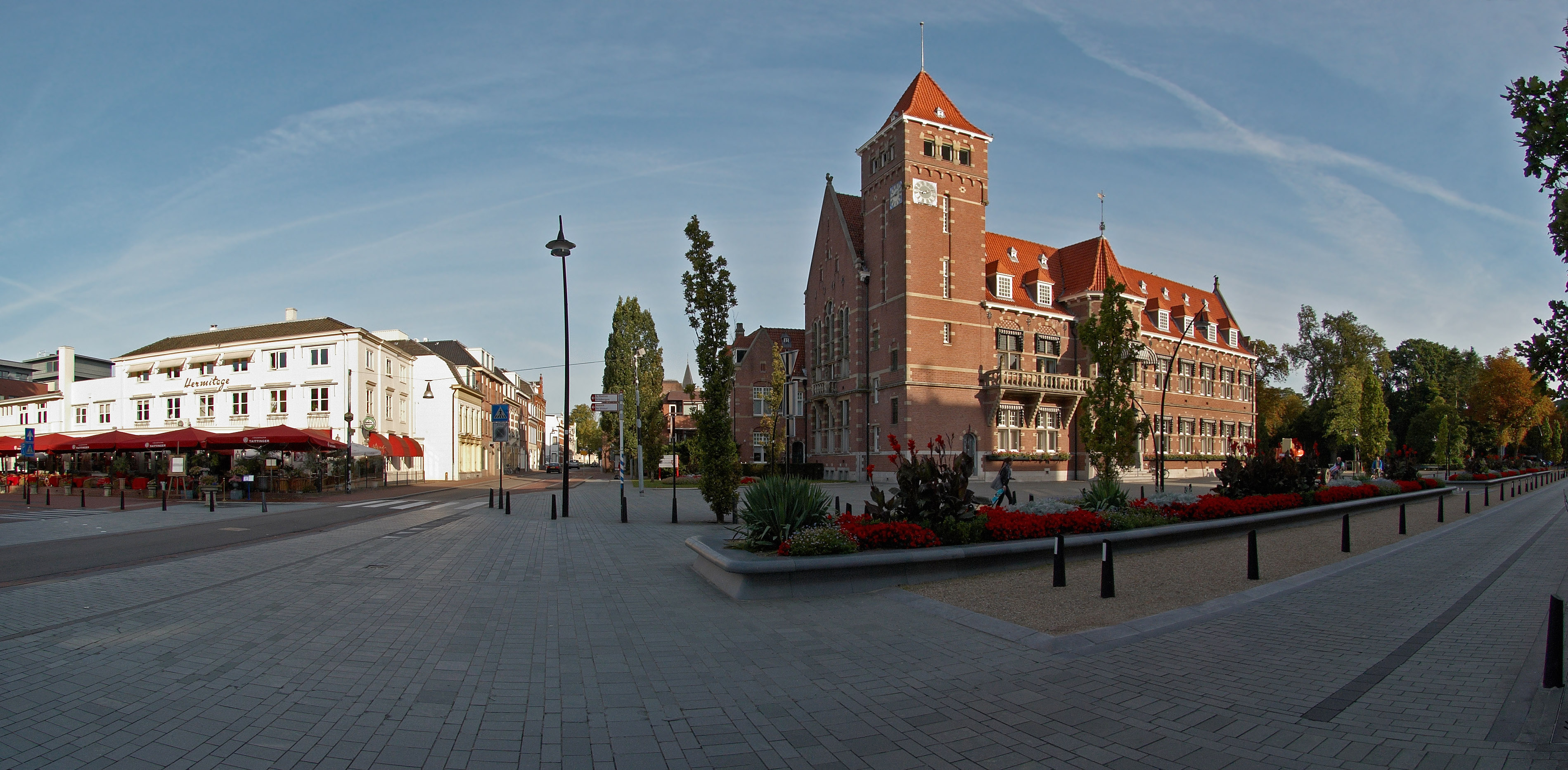 On the right the townhall, on the left restaurant Hermitage in Zeist